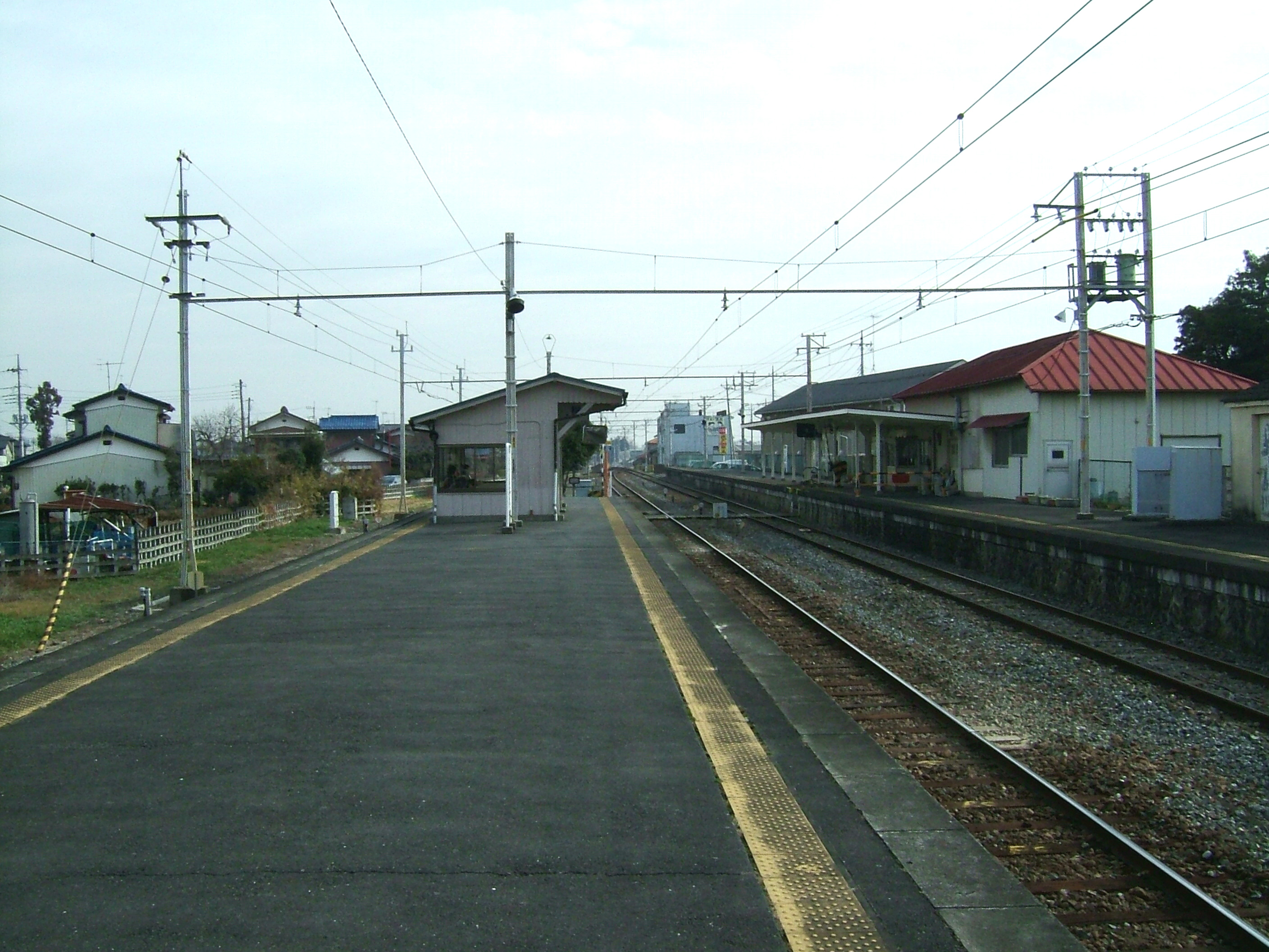 The platforms at Omaeda Station on the Chichibu Main Line